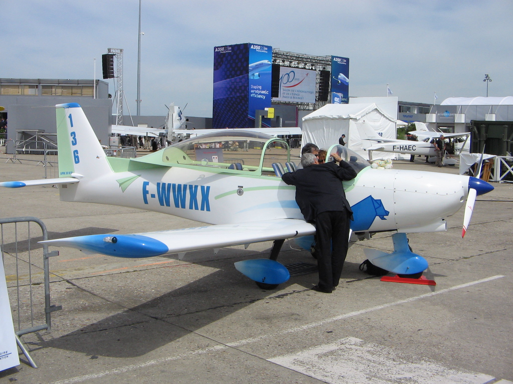 APM 30 Lion during 2009 Paris air show